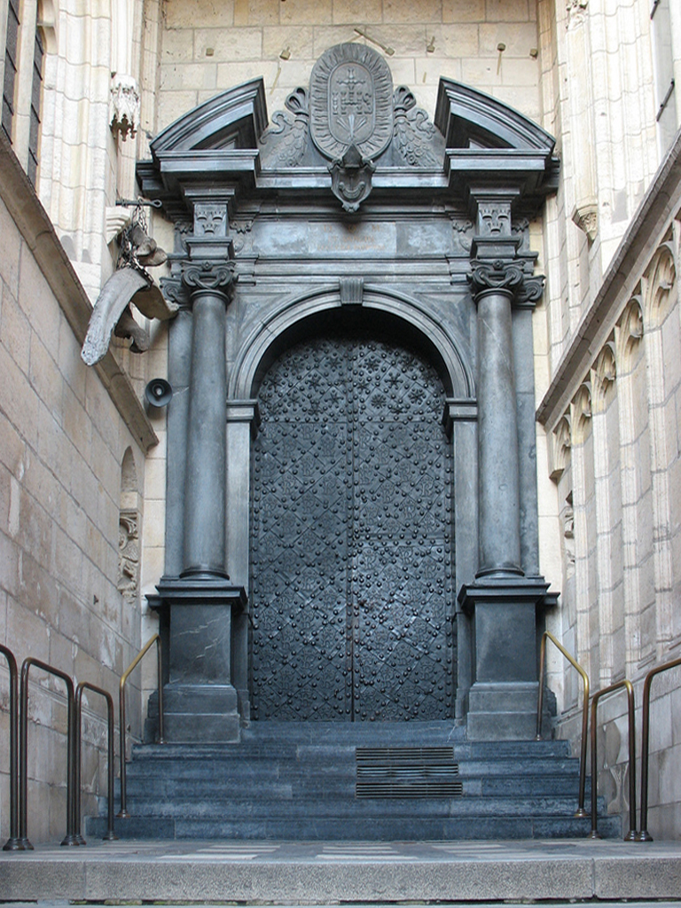 Entrance to the Wawel cathedral, from west.